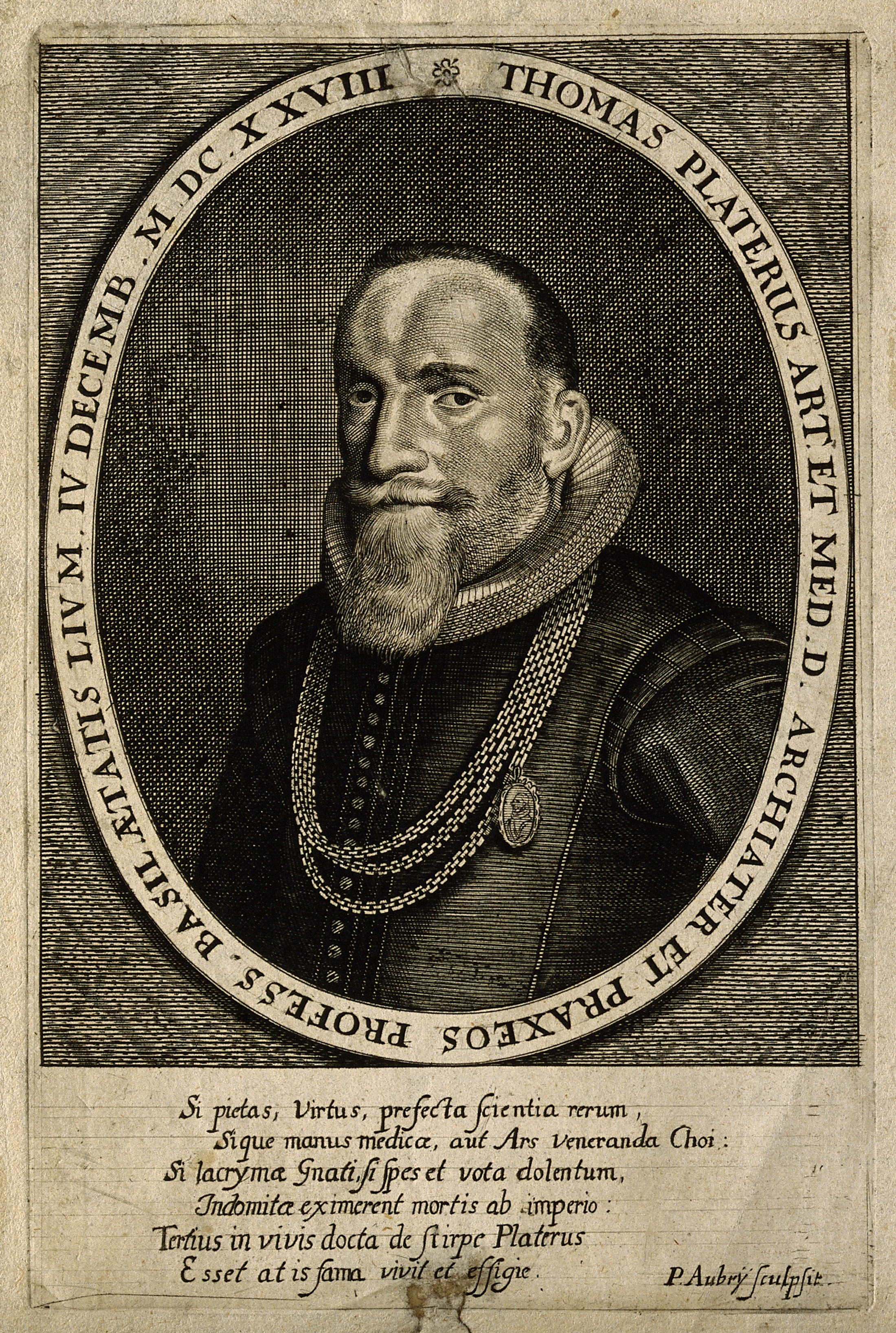 Thomas Plater [Platter] II. Line engraving by P. Aubry. Iconographic Collections Keywords: portrait prints; engravings; Thomas Plater